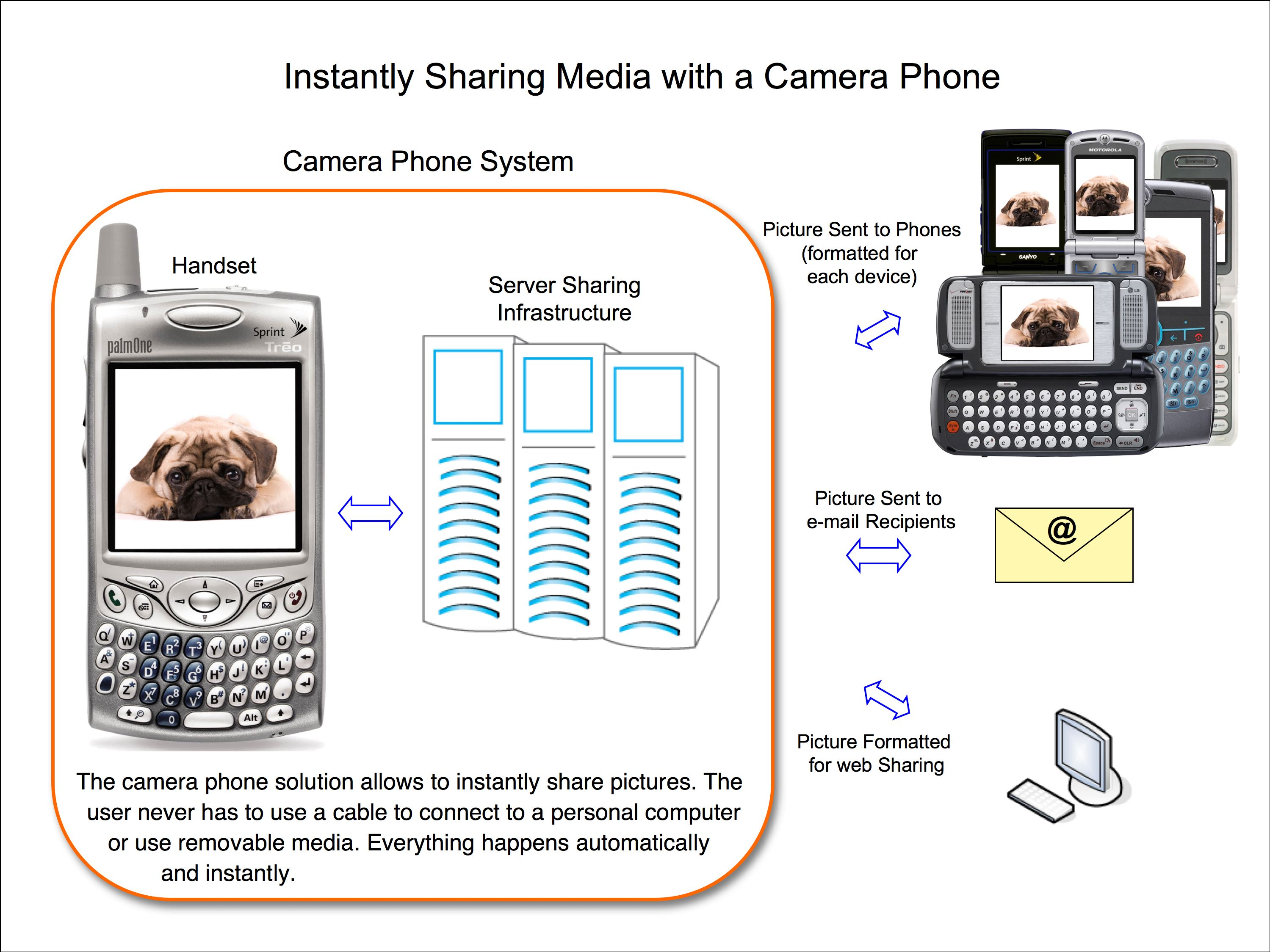 The camera phone solution allows instant sharing of pictures. As it's automatic and instant, the user does not have to use a cable or removable media to connect to a personal computer.